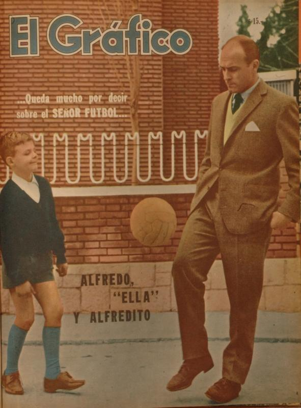 Alfredo Di Stéfano playing with his son, also called Alfredo.